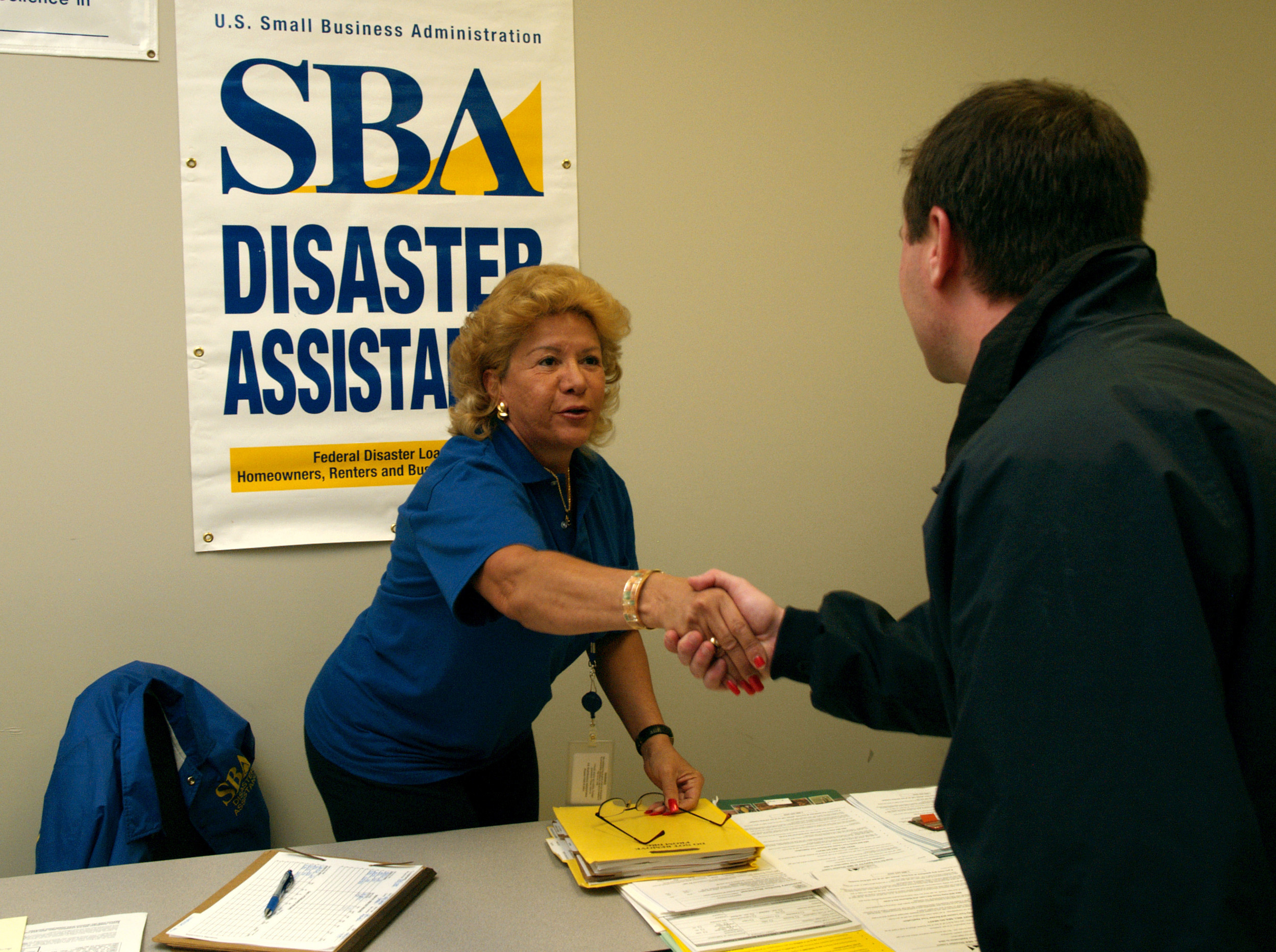 Sioux Falls, SD, May 27, 2007 -- Josephine Rubio, left, a customer service representative with the U.S. Small Business Administration, introduces herself to Justin Dombrowski, the federal coordinating officer, at the Mitchell Disaster Recovery Center. Amanda Bicknell/FEMA